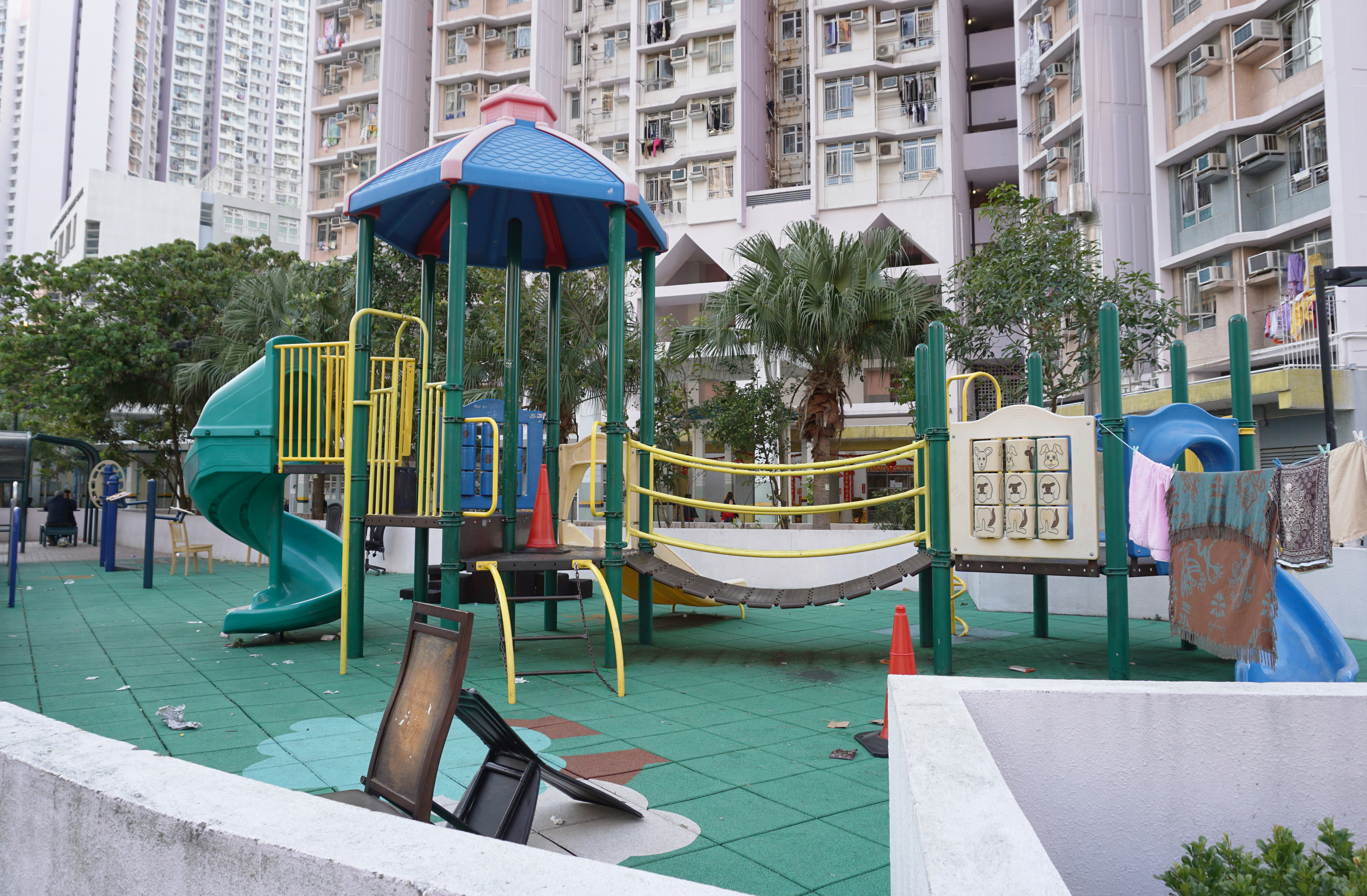 Chung On Estate in Ma On Shan, Hong Kong.